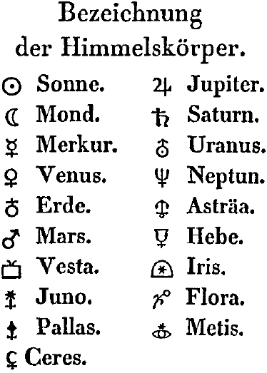 Table "Designation of the celestial bodies", from the last issue of the "Berliner Astronomisches Jahrbuch" (astromomical yearbook of Berlin) which uses symbols instead of encircled numbers for the "minor planets" (which today are called either "dwarf planets" or "asteroids")